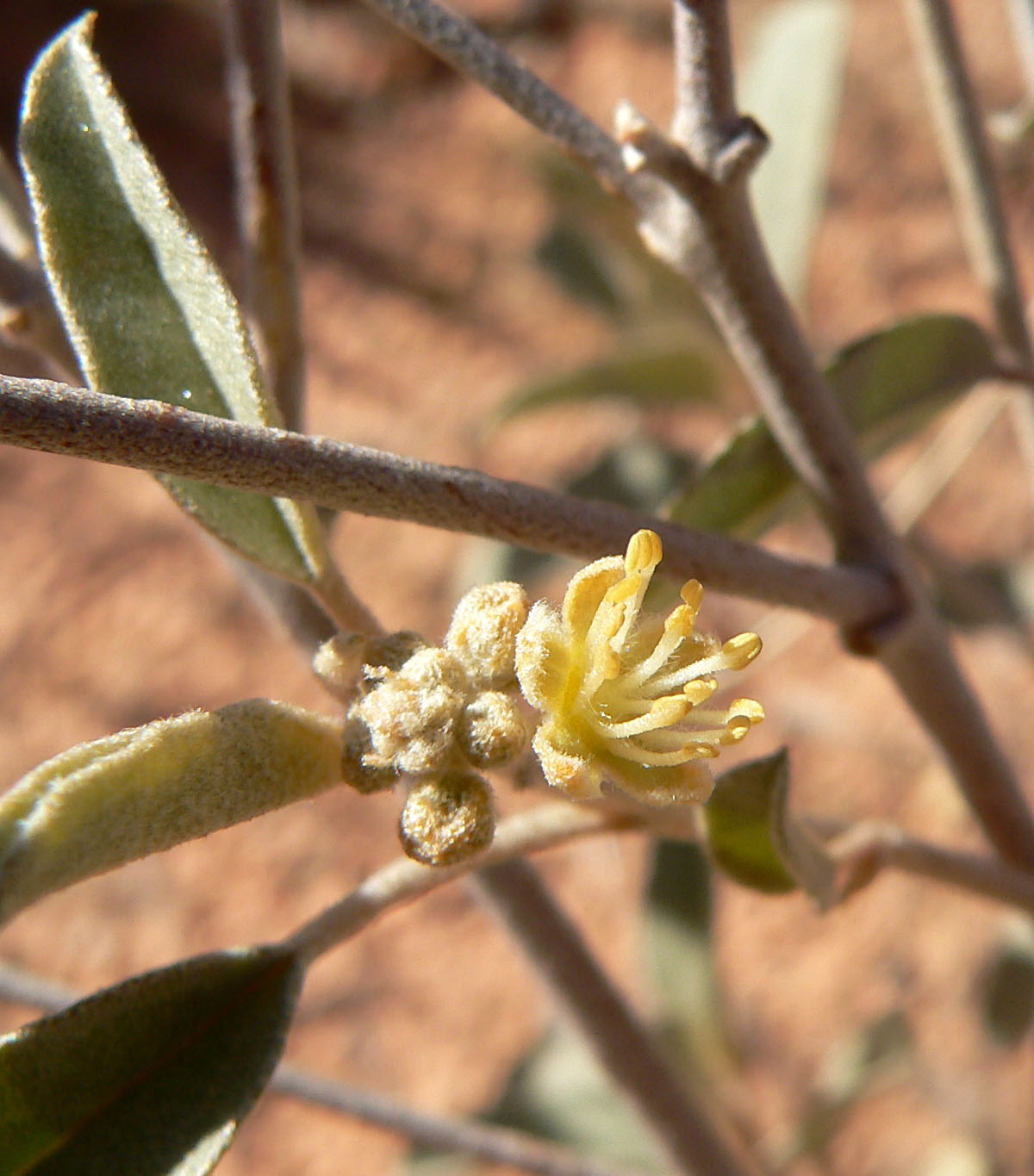 Croton californicus in the White Domes area, Valley of Fire, southern Nevada